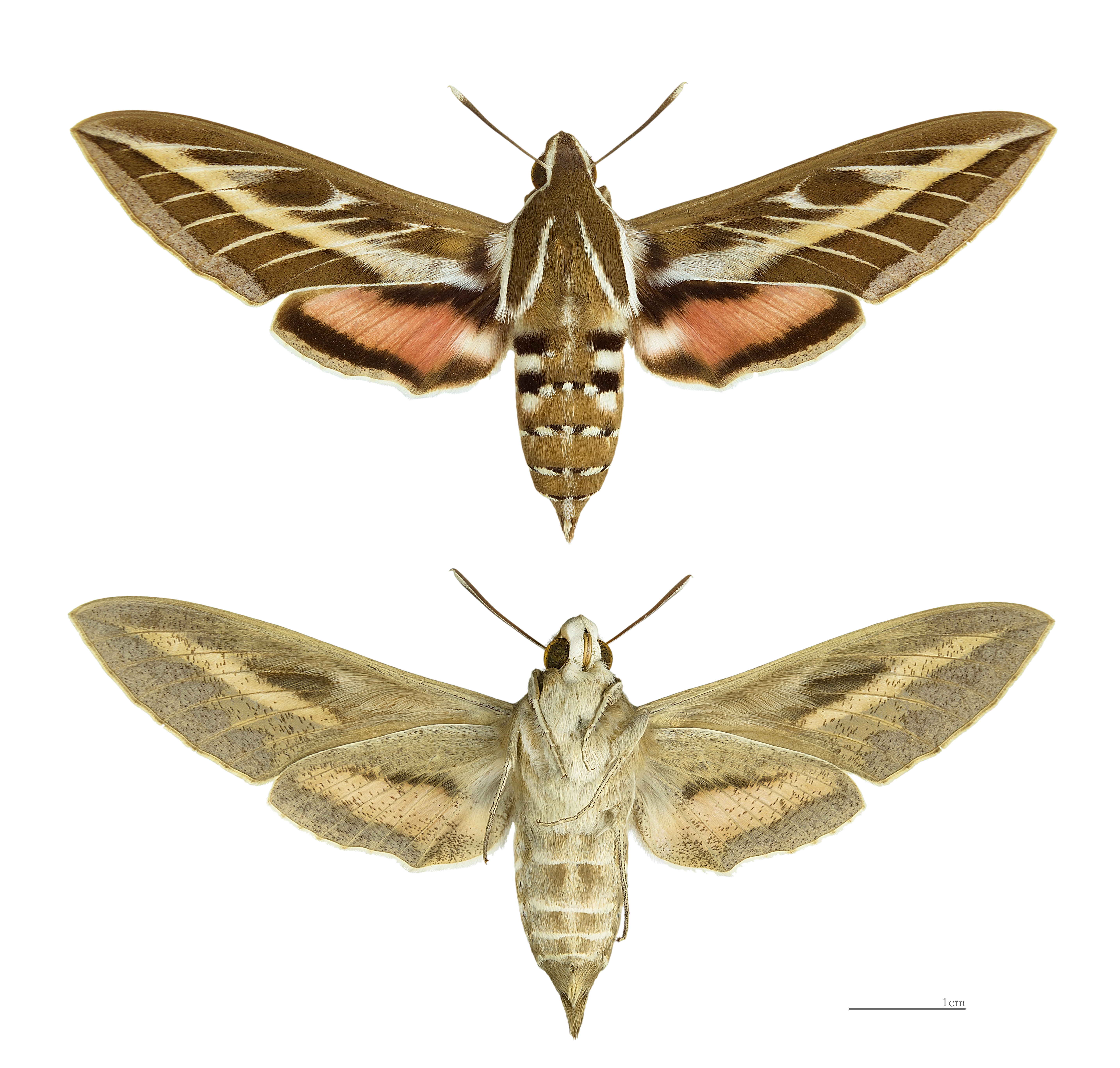 Striped Hawk-moth - Two views of same specimen